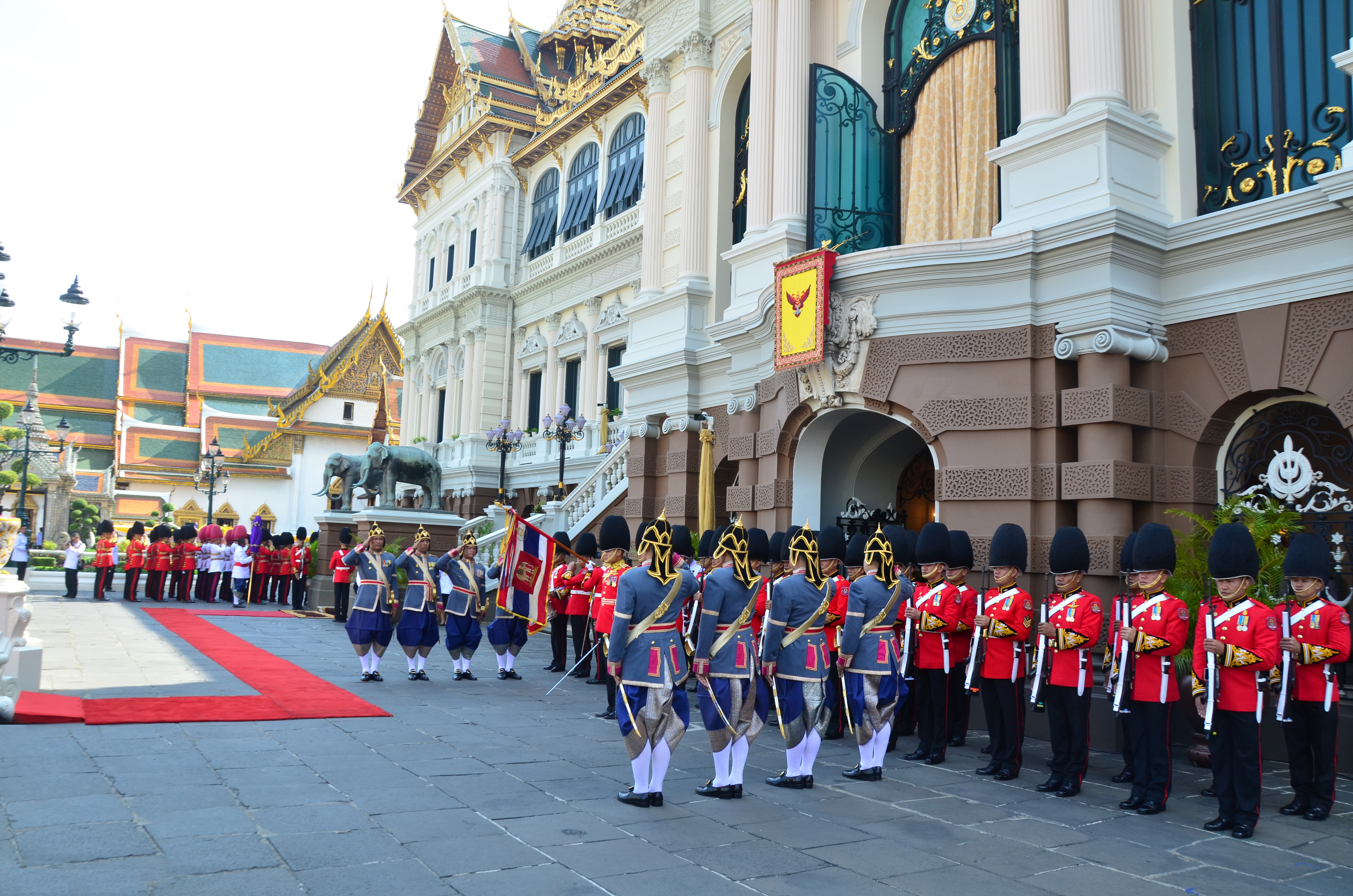 Unit colours of the 4th Infantry Battalion, 1st Infantry Regminent King's Own Bodyguard